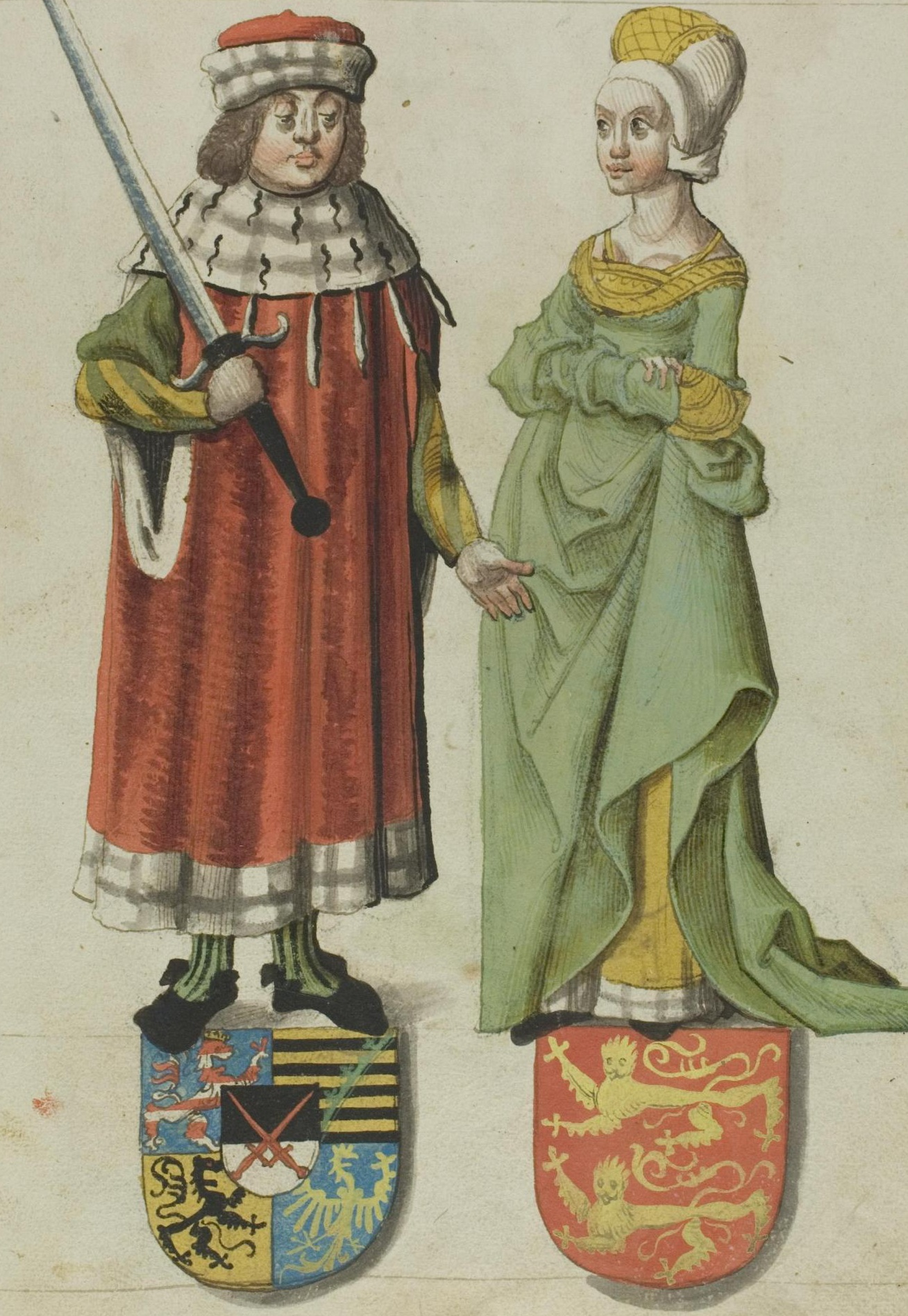 Frederick I, Elector of Saxony and Catherine of Brunswick-Lüneburg. Crop from Sächsisches Stammbuch 80 r. Friderich Herzog zu Sachsen, Katharina.